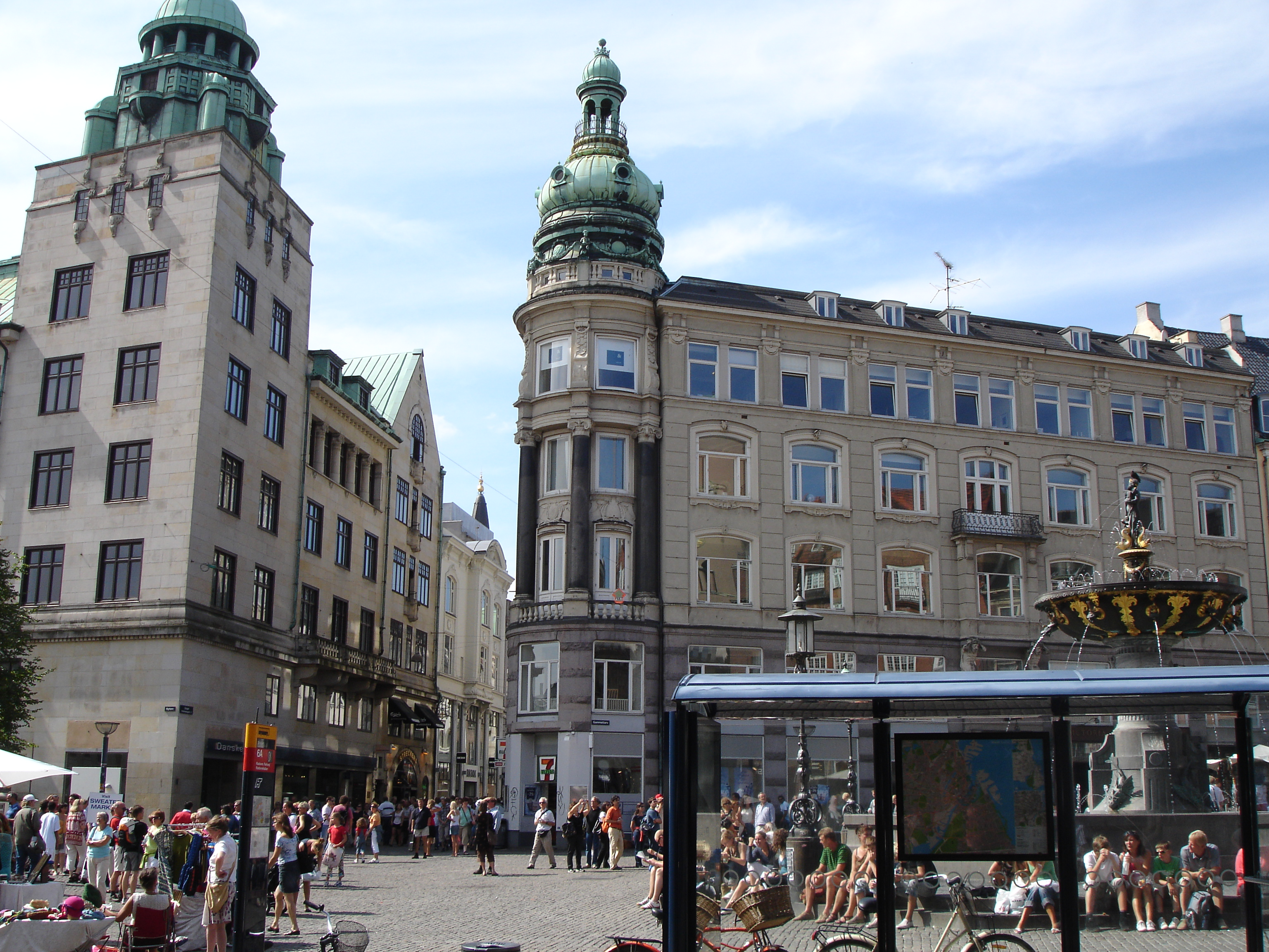 The corner of Frederiksberggade (no. 2), part of Strøget, and Gammeltorv. The building was designed by Johan Schrøder and built in 1899. Source The other corner, Frederiksberggade no. 1, was erected 1904 to a design by Victor Nyebølle.